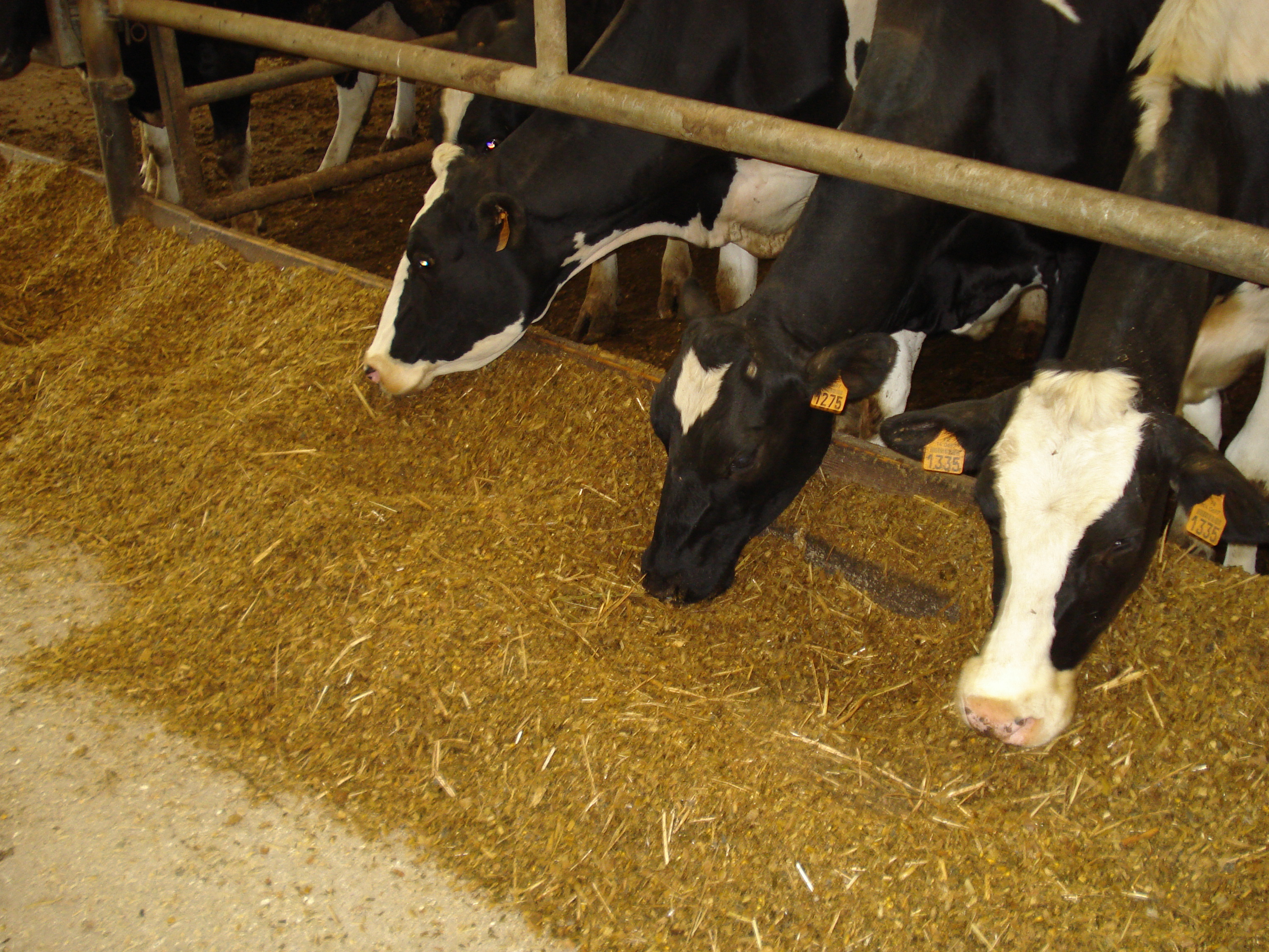 Holstein dairy cows eating TMR (Total Mixed Ration), France